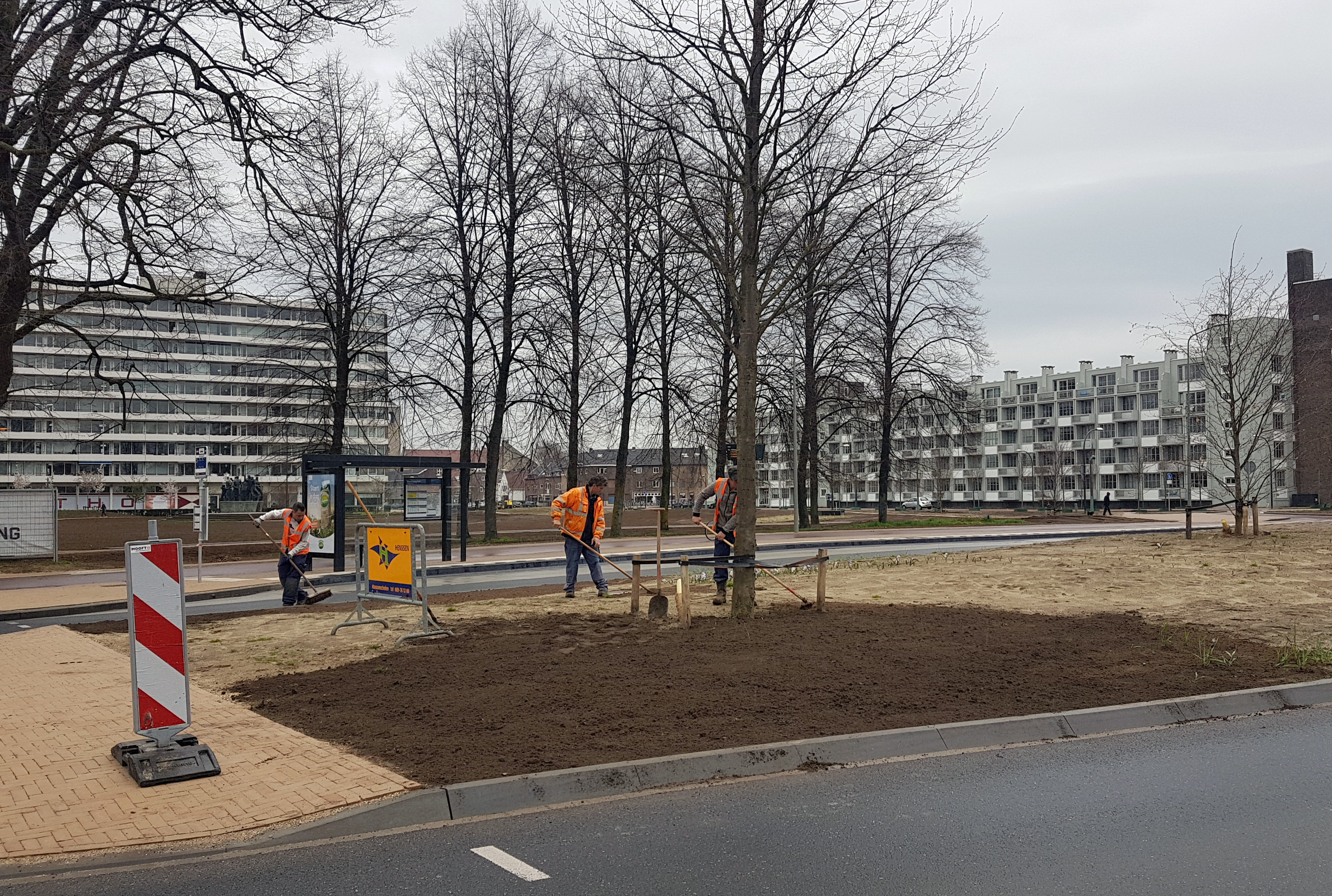 View of Scharnerweg-Koningsplein, part of the "Green Carpet" (Groene Loper) under construction in Maastricht, Netherlands. The Green Carpet is laid out on top of the Koning Willem-Alexandertunnel, where the A2 motorway ran aboveground until 2016. Around 1100 houses will be built along this 2.5 km long park-like zone. Over 2000 lime trees have been planted. The new road is destined for local traffic; the central strip will be reserved for bicycles and pedestrians.